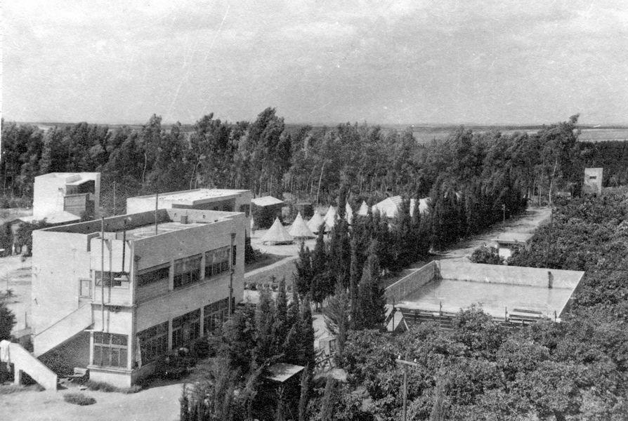 Ein Hahoresh, Geography of Israel